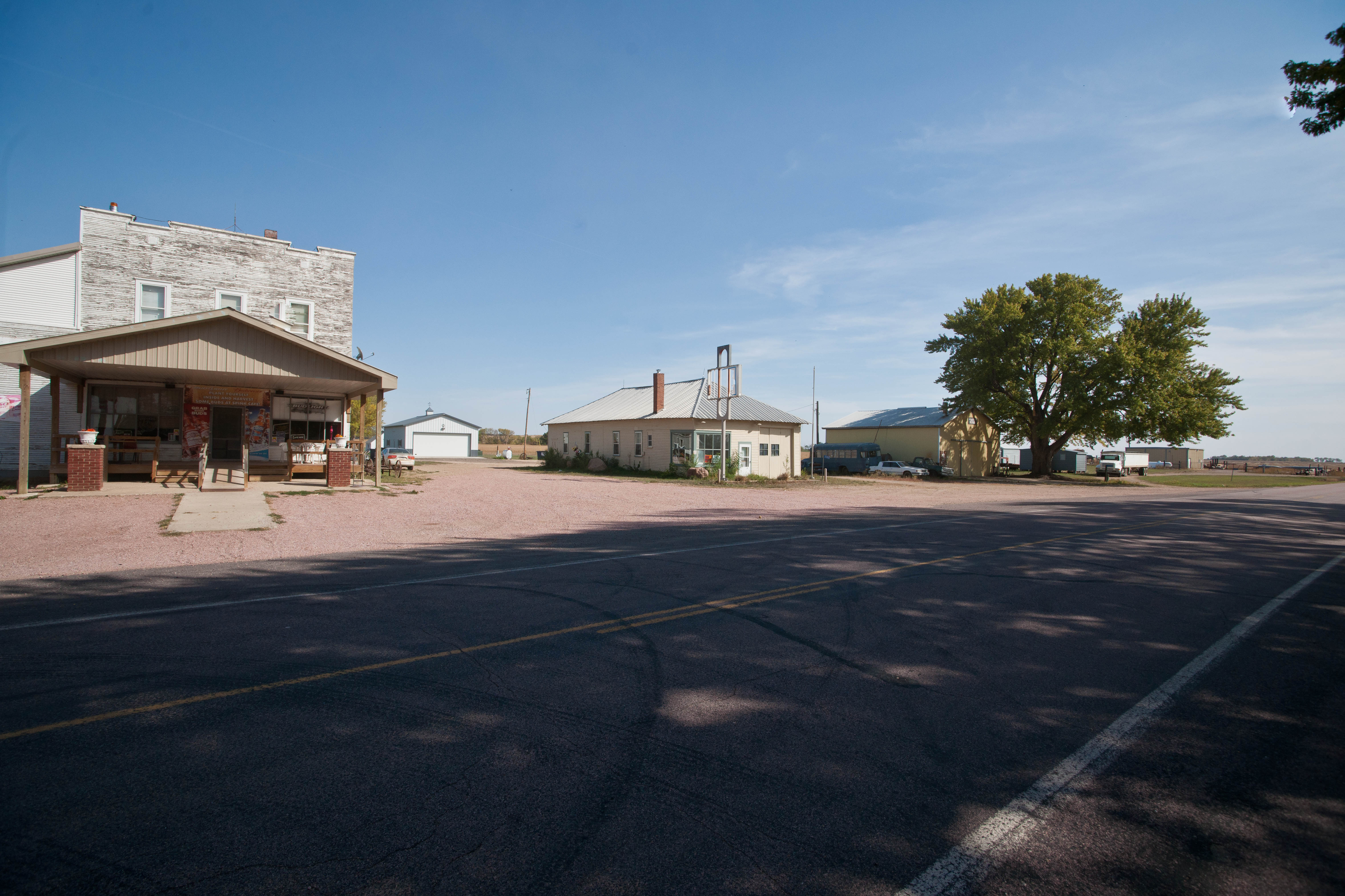 From